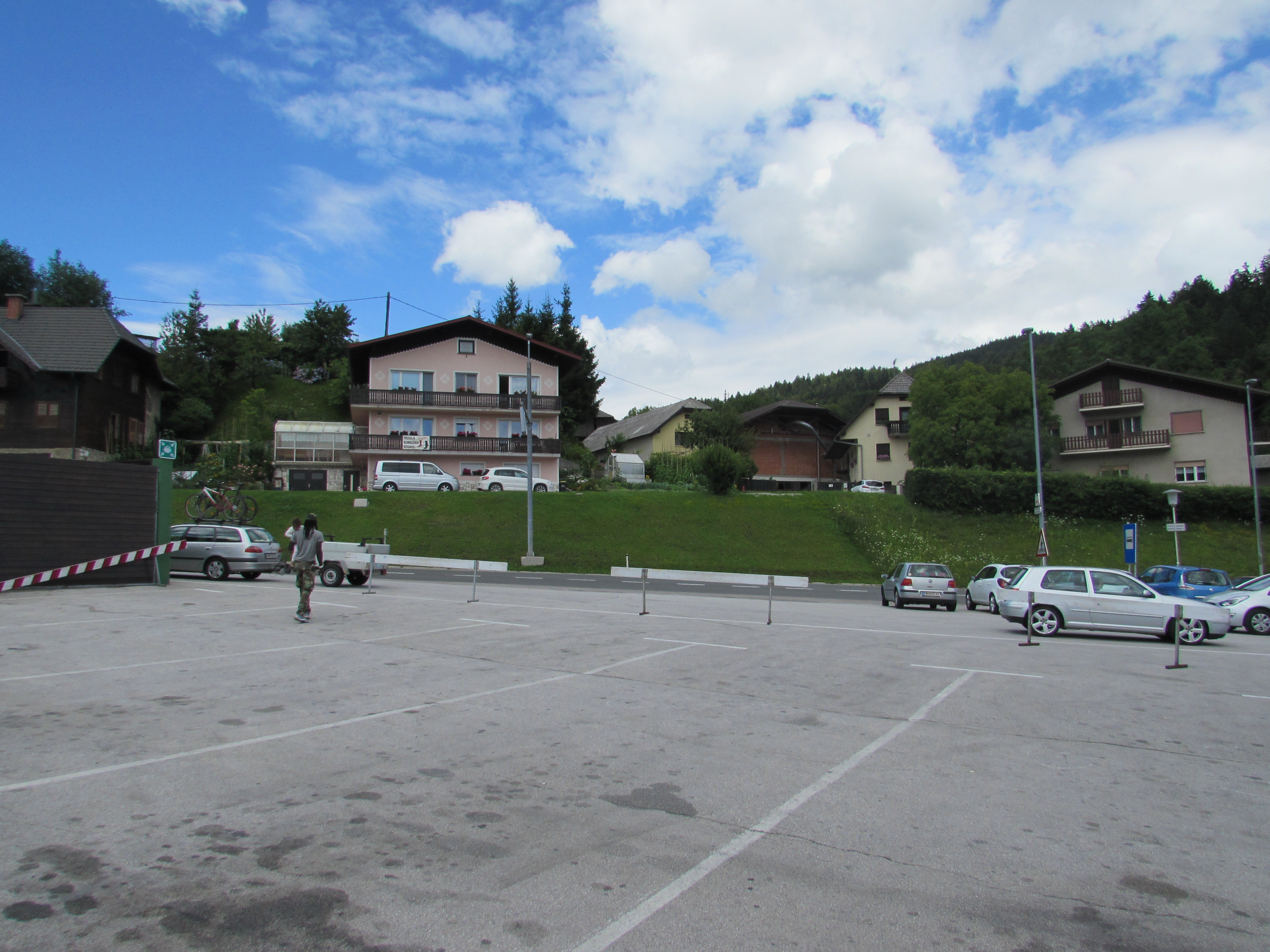 View from Trojane, Slovenia